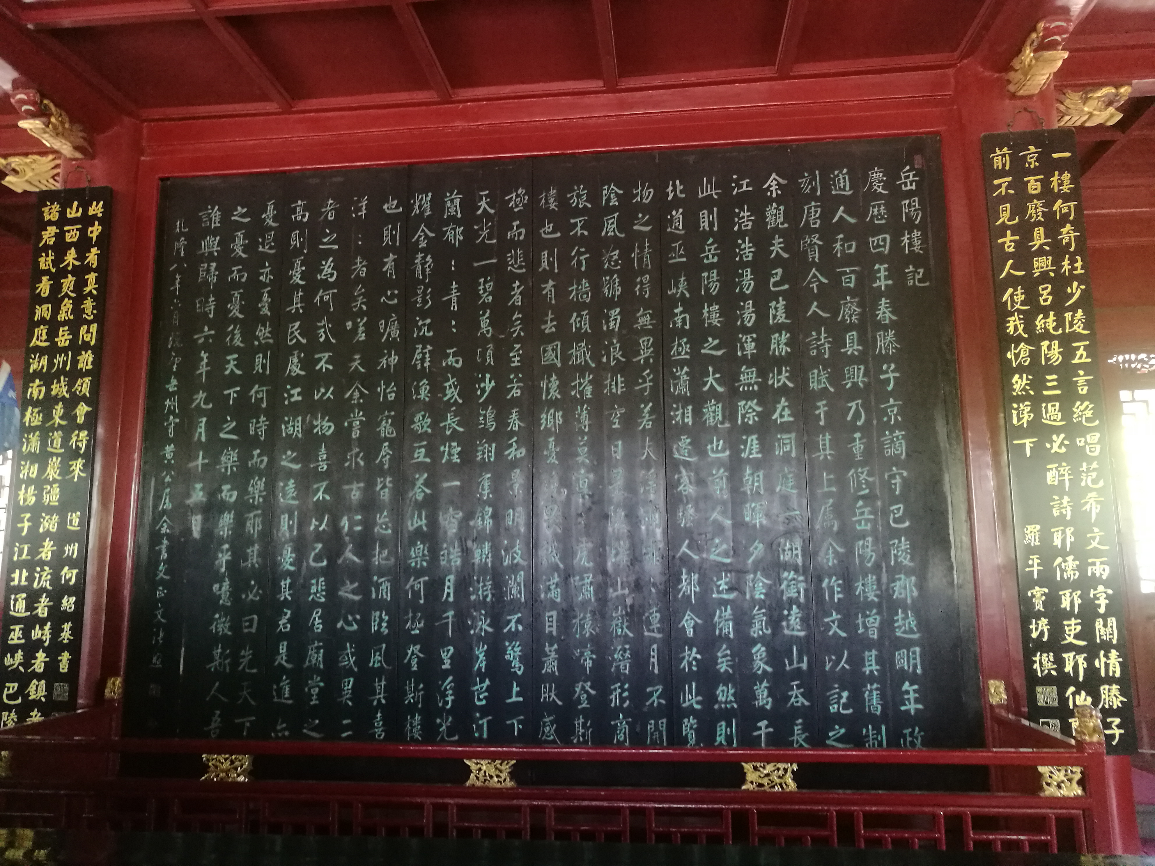 Wooden screen of Memorial to Yueyang Tower, written by calligrapher Zhang Zhao. It is hung on the interior wall of Yueyang Tower. Yueyang Tower is a Chinese tower in Yueyang, Hunan, China.